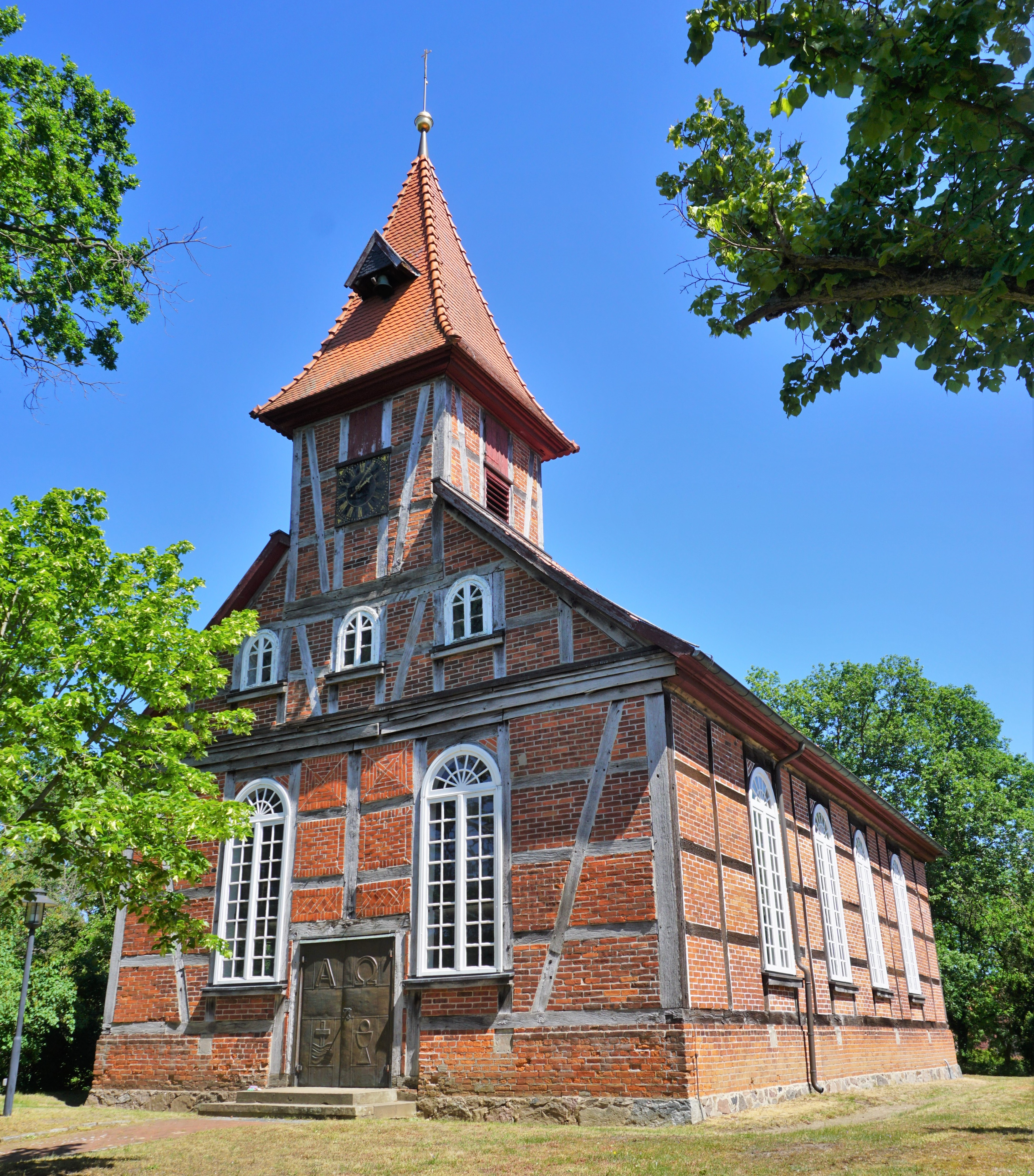 View from the west to the St. Mary's church in Kaarßen (Amt Neuhaus)